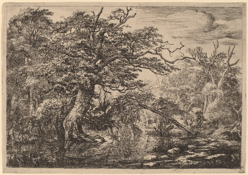 Etching of a forest scene